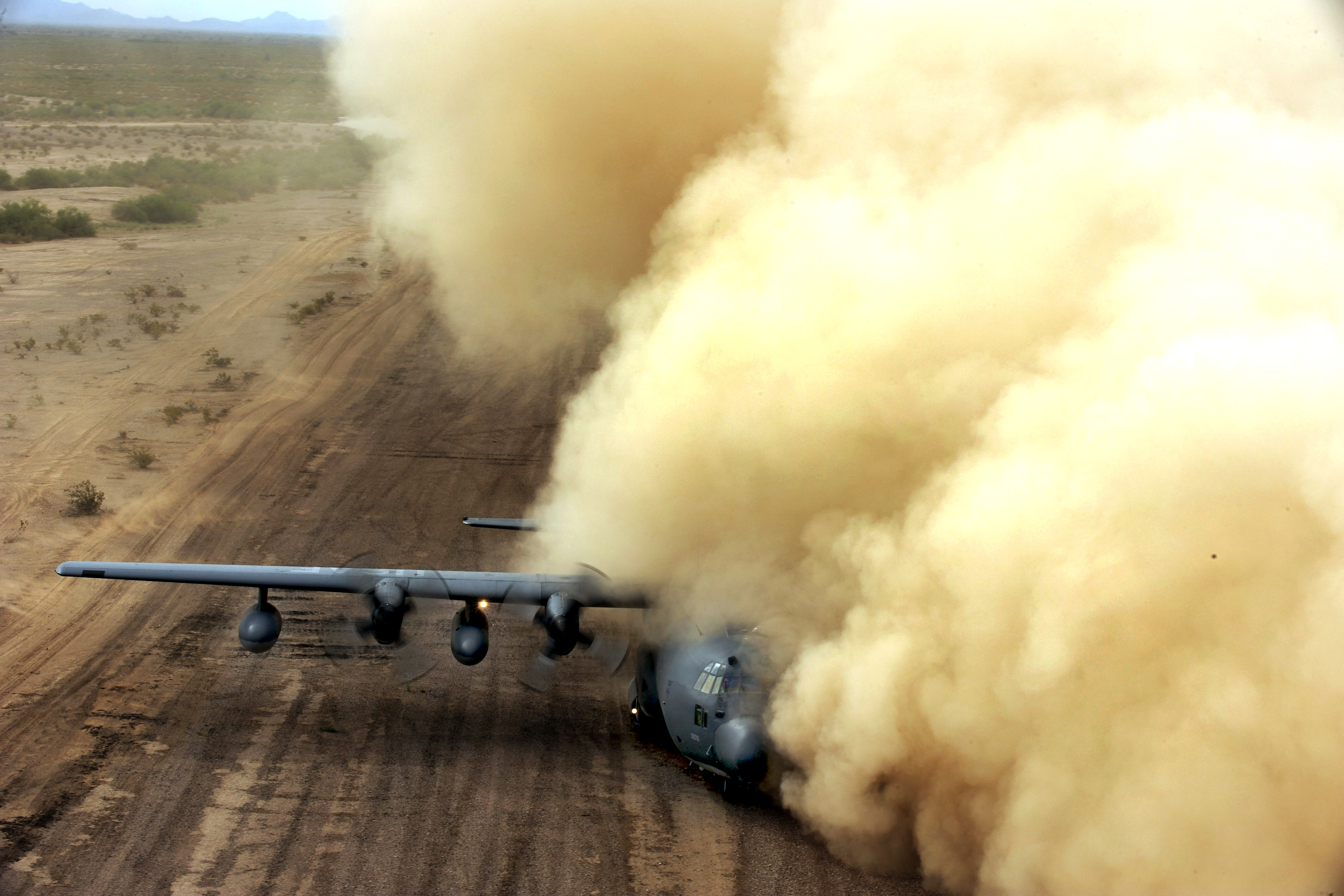 A U.S. Air Force HC-130 Hercules aircraft gets a brownout from the rotor wash of an HH-60 Pave Hawk helicopter on a dirt airstrip in the desert surrounding Davis-Monthan Air Force Base in Tucson, Ariz., April 16, 2010, during Angel Thunder 2010. The Hercules crew is assigned to the 39th Rescue Squadron on Patrick Air Force Base, Cocoa Beach, Fla.